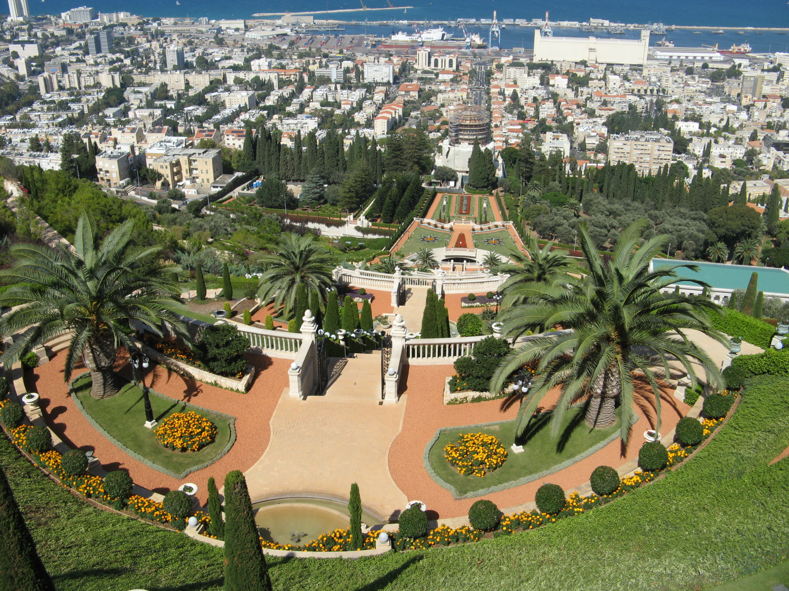 This image was taken as part of the Elef Millim project trip to the German Colony of Carmelheim in the Carmel Center in Haifa and to the Bahai Gardens , which was held on Friday, 25th September 2009. To view all images uploaded as pary of the Elef Millim Project